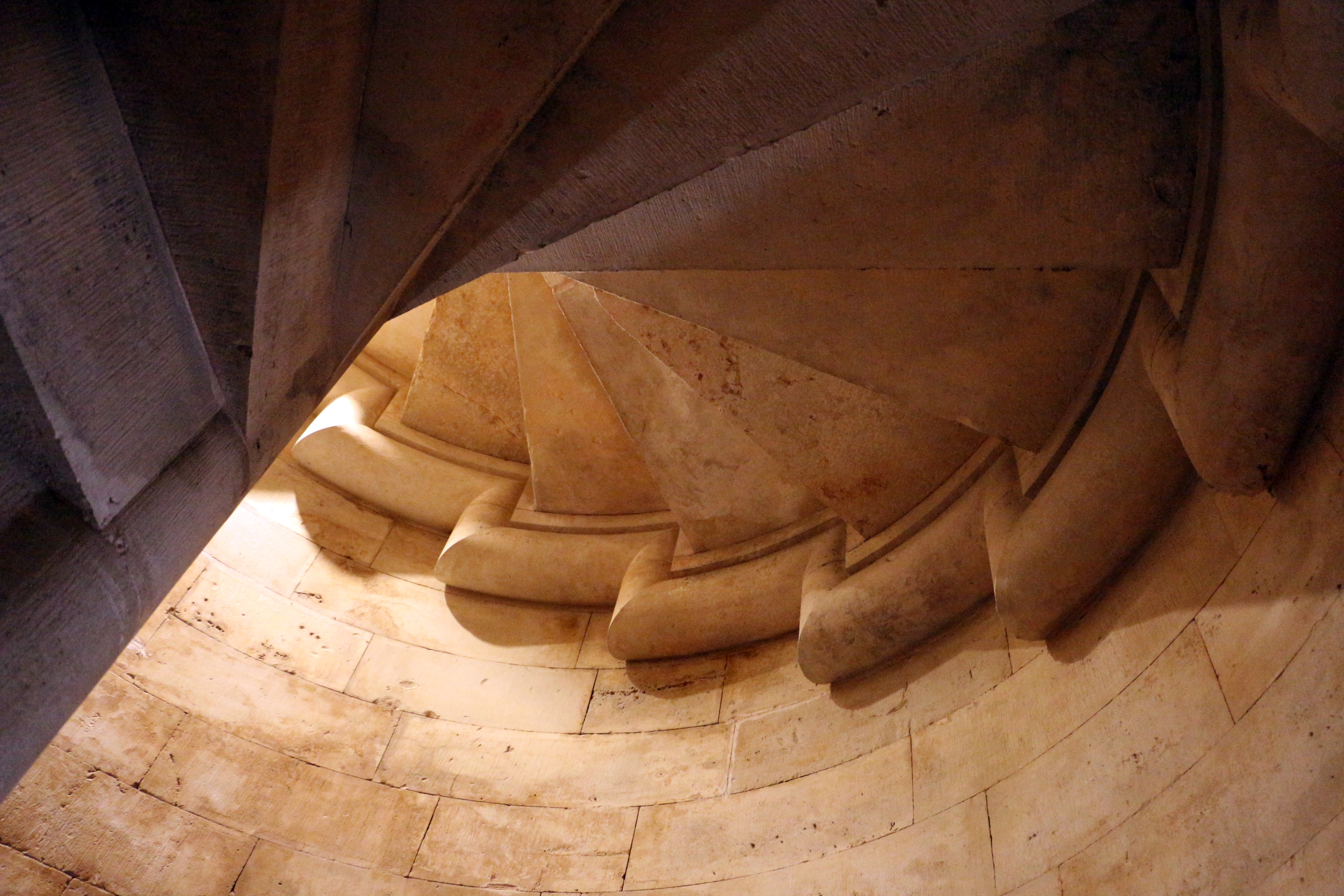 Interior of the Castel del Monte